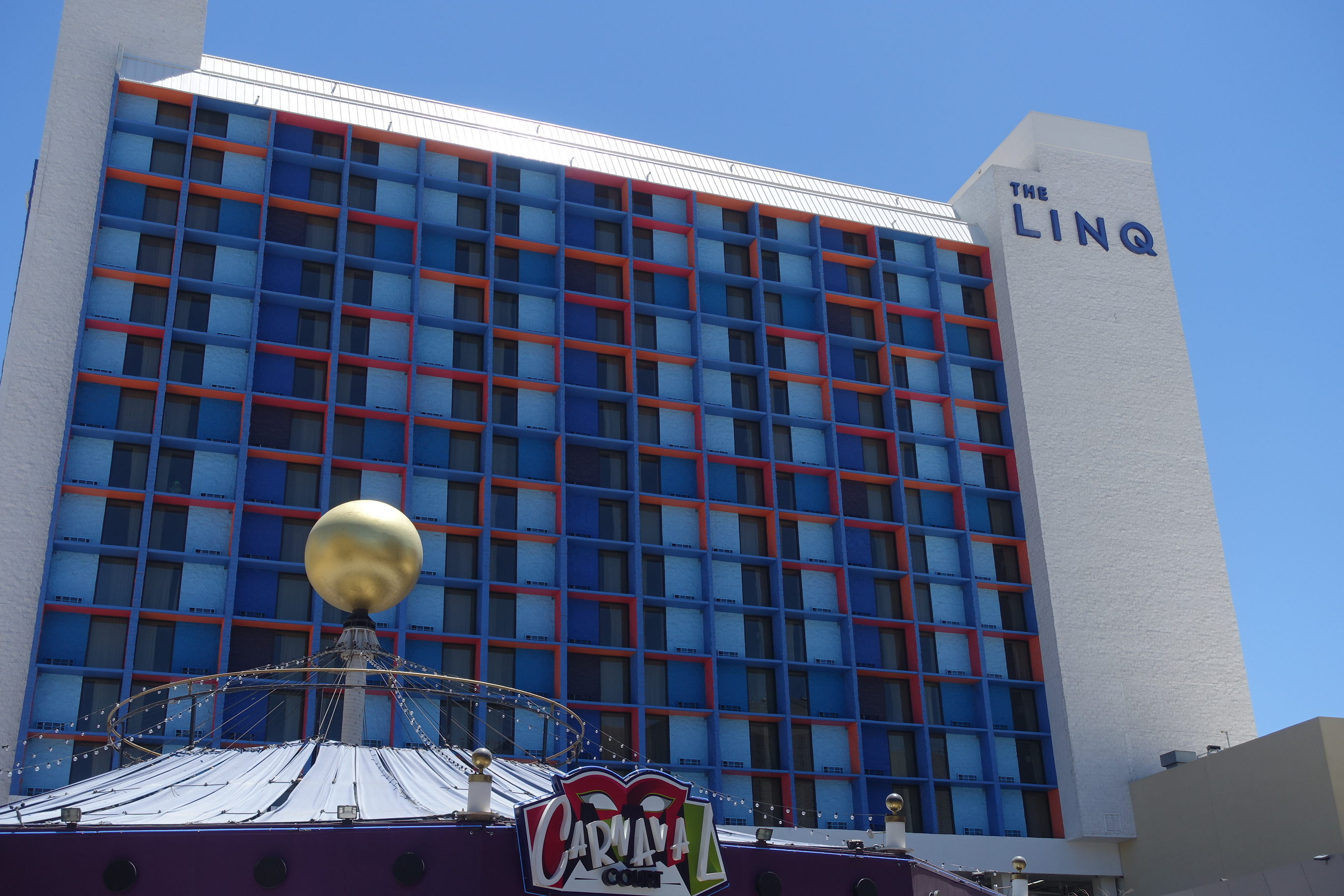 The Linq hotel/casino on the Las Vegas Strip.